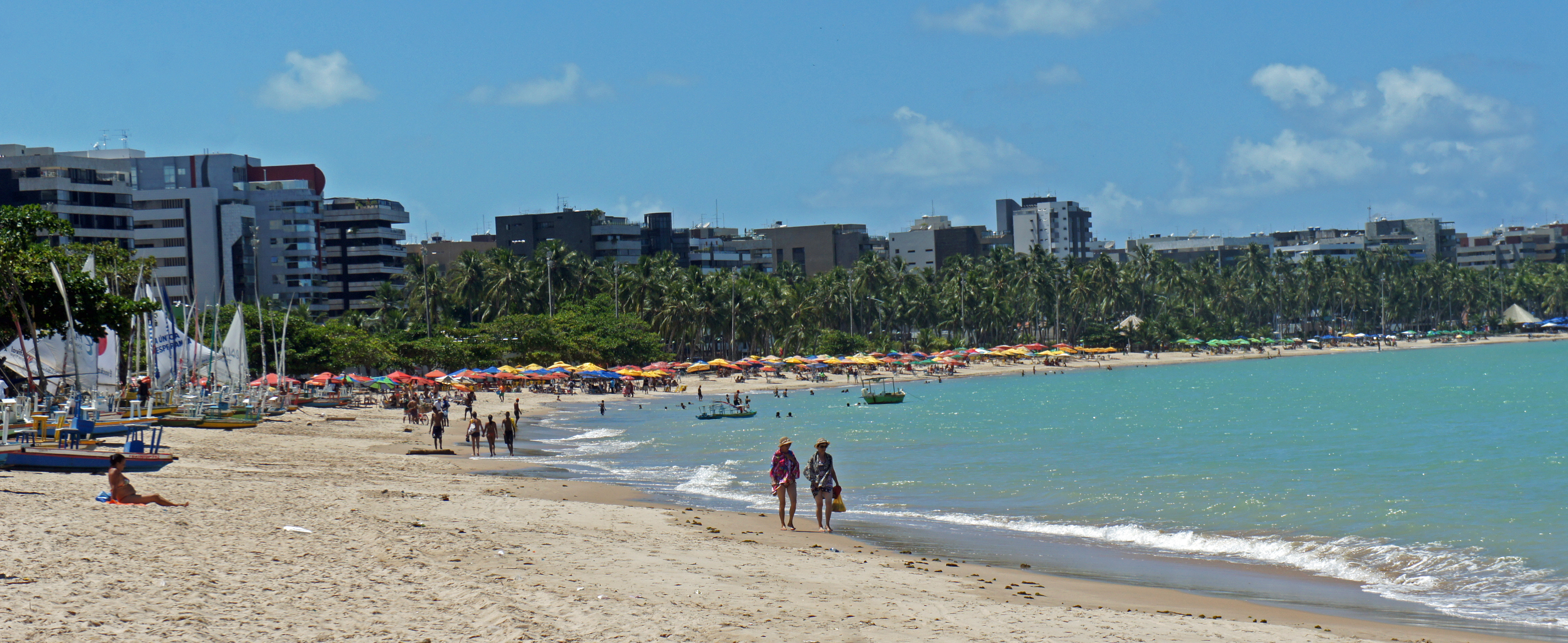 Pajuçara Beach, Maceió, Alagoas, Brazil